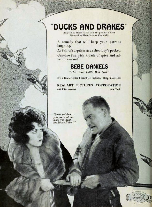 Advertisement for the American comedy film Ducks and Drakes (1921) with Bebe Daniels and an unidentified actor, inside front cover of the February 20, 1921 Film Daily.